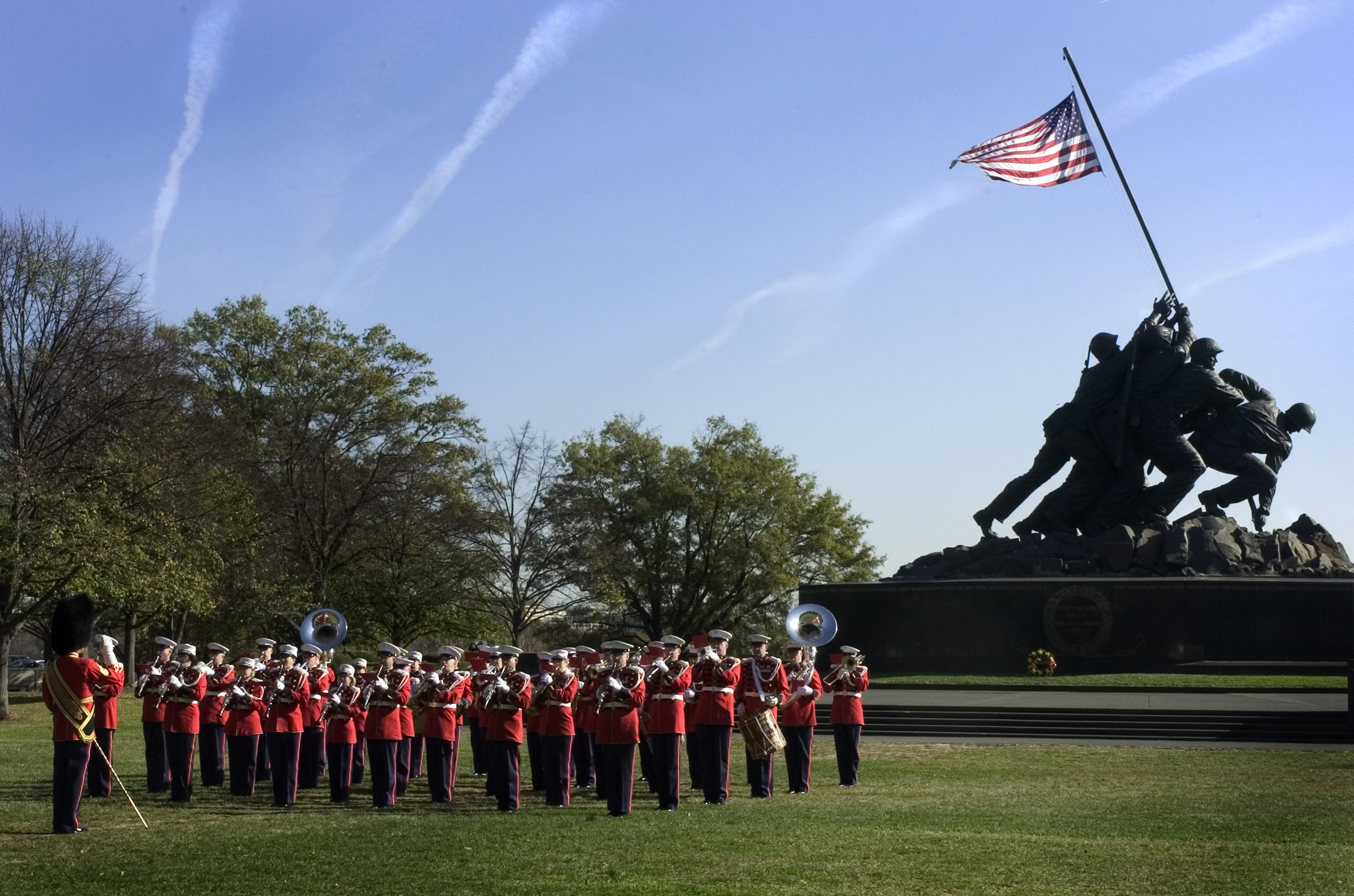 Washington, D.C. (Nov 10. 2004) – The U.S. Marine Corps marching band plays for an audience attending a wreath laying ceremony honoring the U.S. Marine Corps' 229th birthday at the Iwo Jima National Memorial. U.S. Navy photo by Photographer's Mate 3rd Class Todd Frantom (RELEASED)